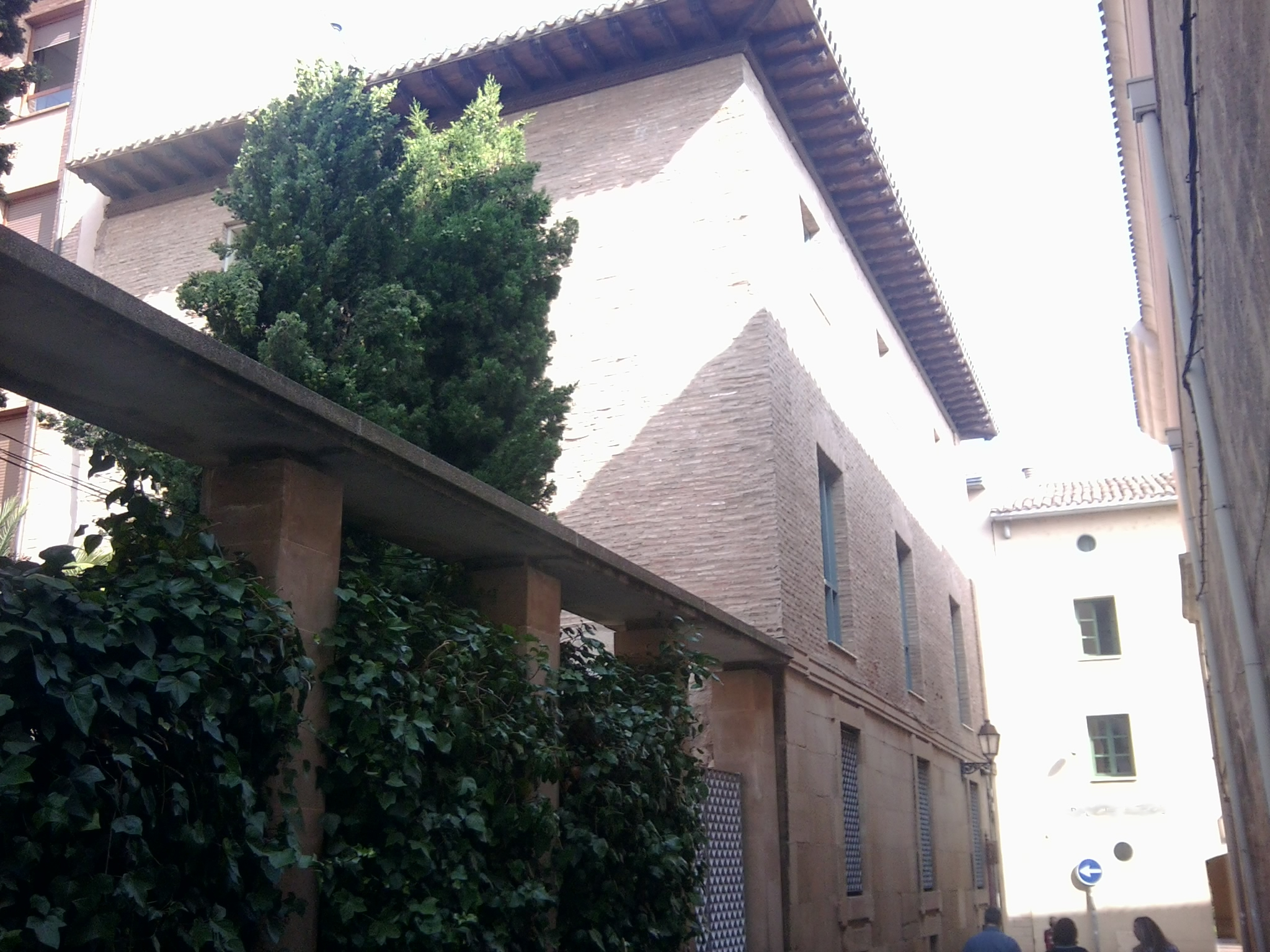 Logroño Pilgrim,s lodging